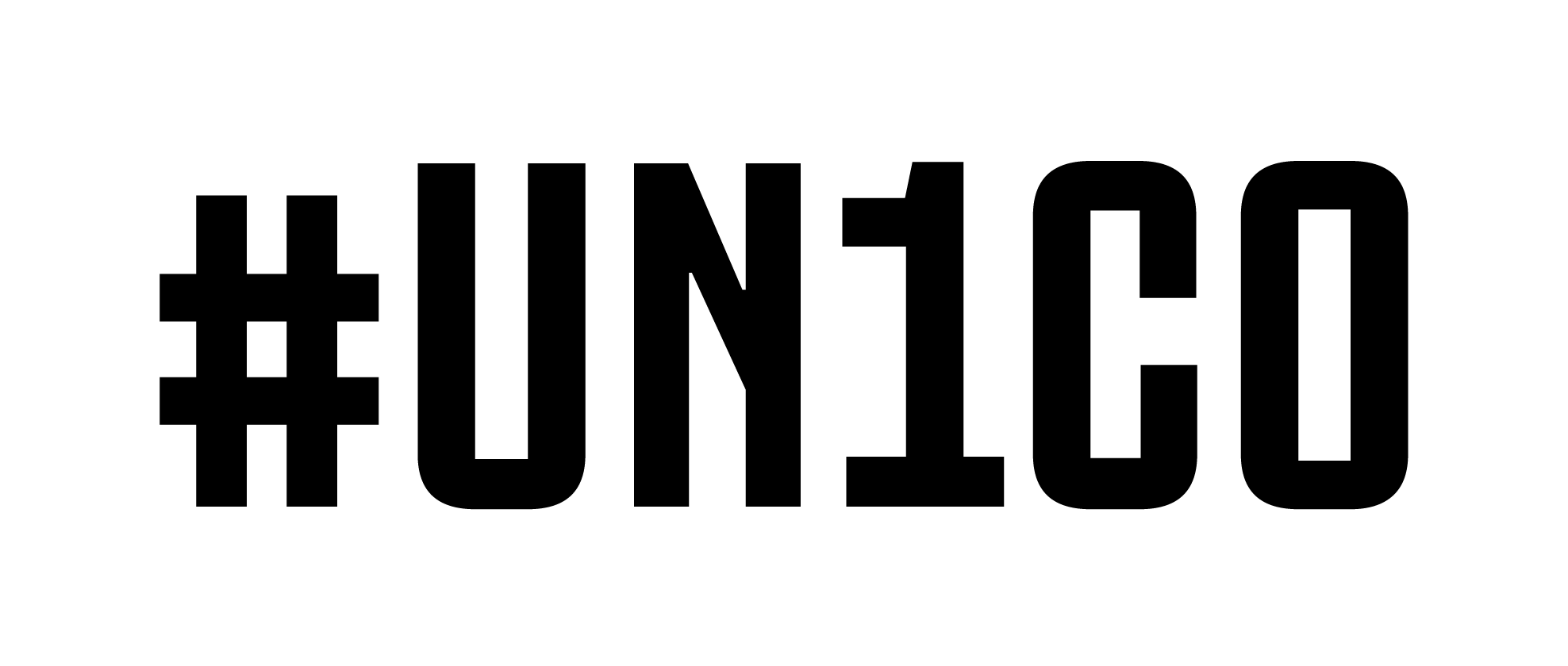 Hashtag #UN1CO ("Unique") for the last game of Gianluigi Buffon with Juventus F.C., May 19, 2018.